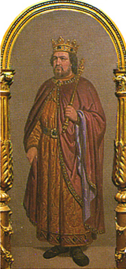 Henry I of Navarre